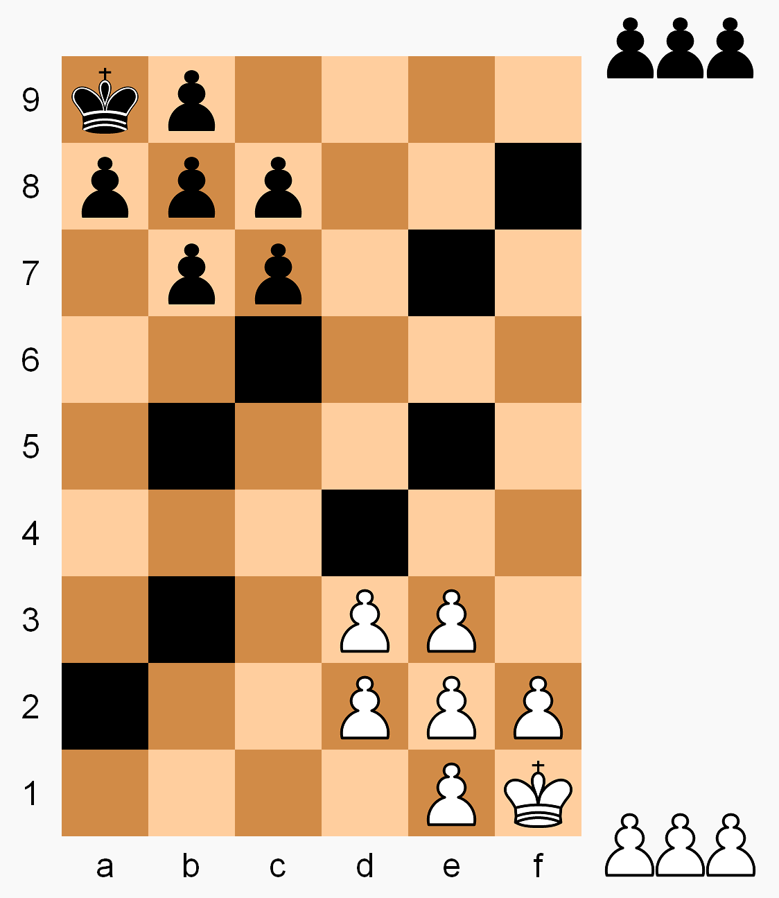 Chessence starting position. Made in PAINT using ProjChess colors and the great chess icons fashioned by David Benbennick (User:Dbenbenn).